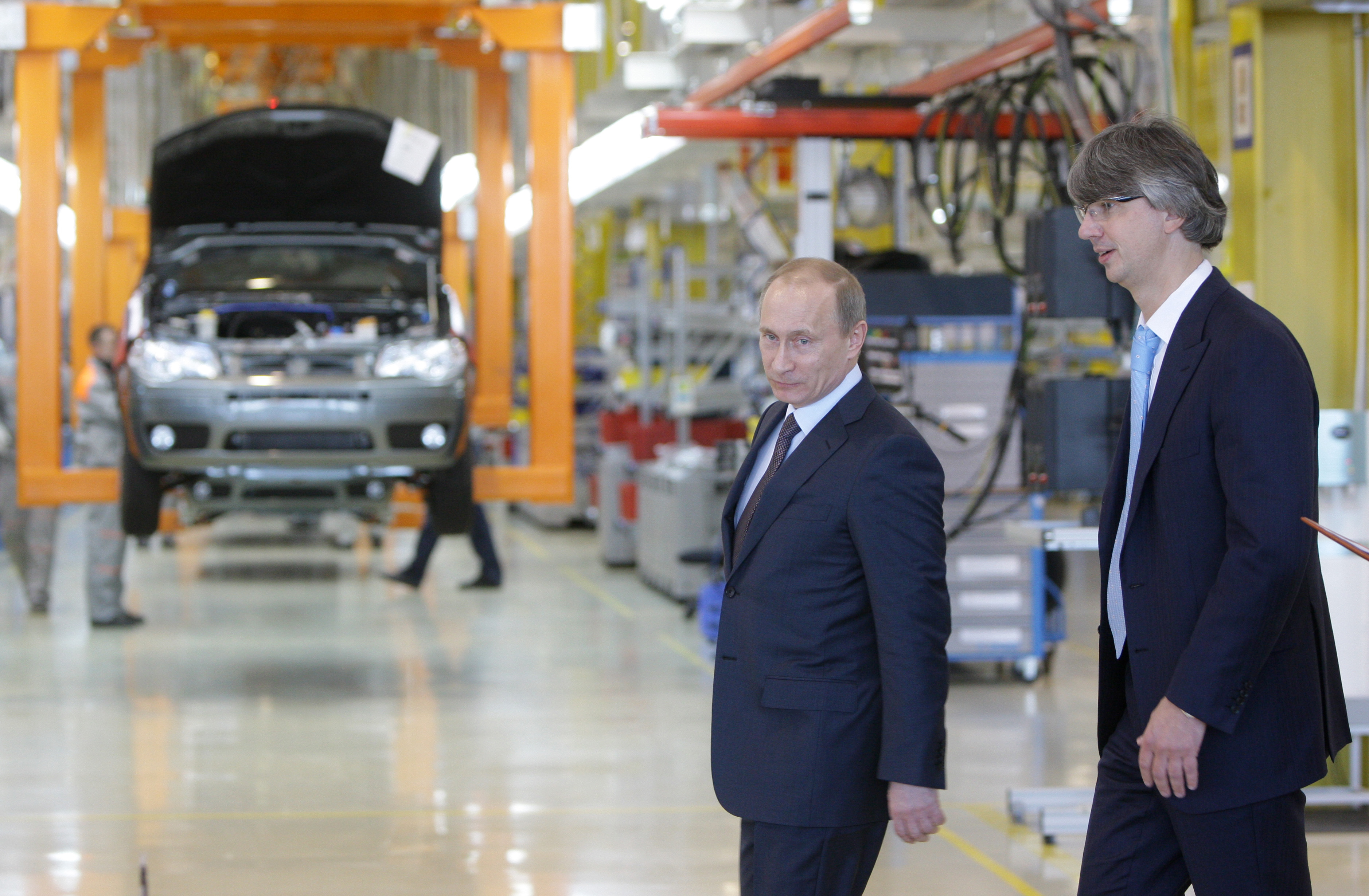 During his trip to Naberezhnye Chelny Prime Minister Vladimir Putin visits the Sollers automobile plant, which produces vehicles for the Italian carmaker Fiat